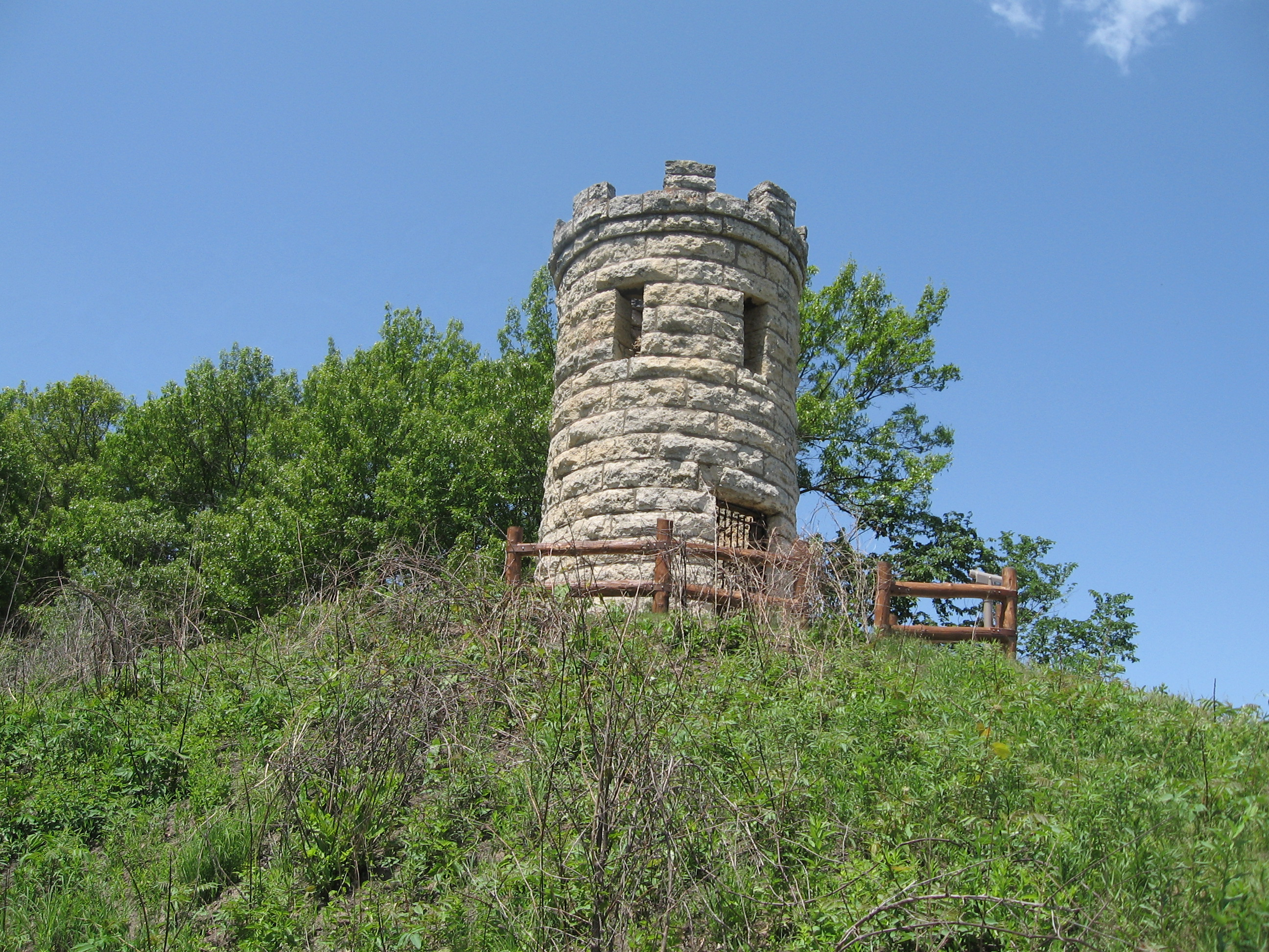 grave of Julien Dubuque, south of Dubuque. Yes, I know I misspelled "Julien" in the file name.